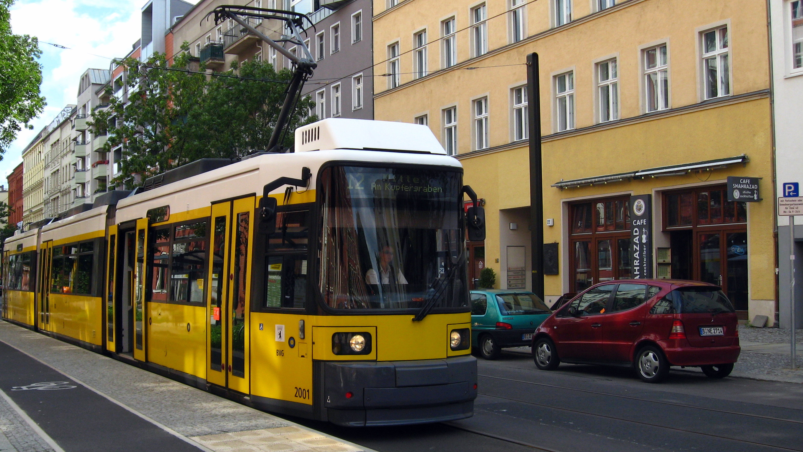 A tram in Berlin, Pappelallee, Germany